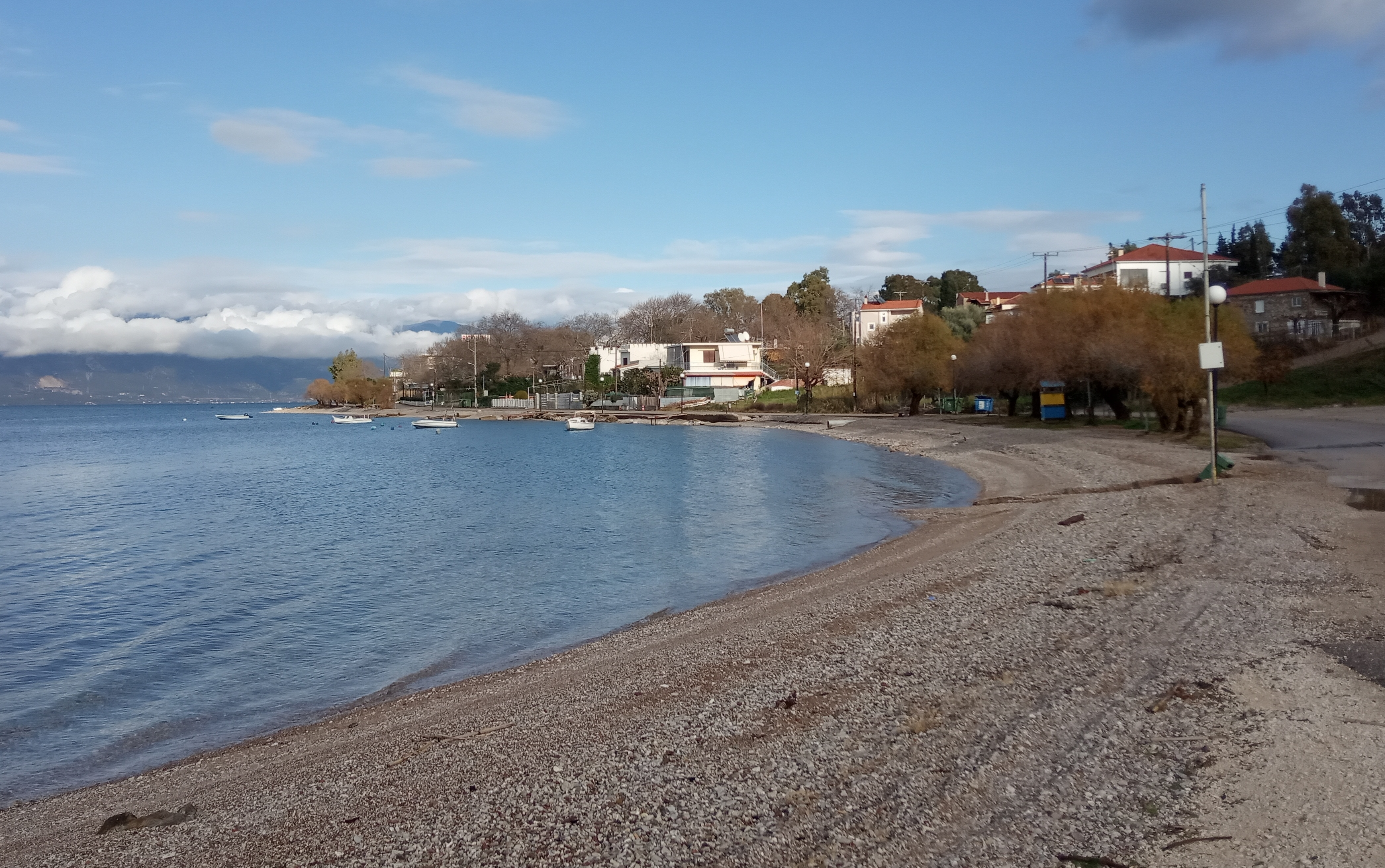 The beach of Kato Rodini as seen a day of winter